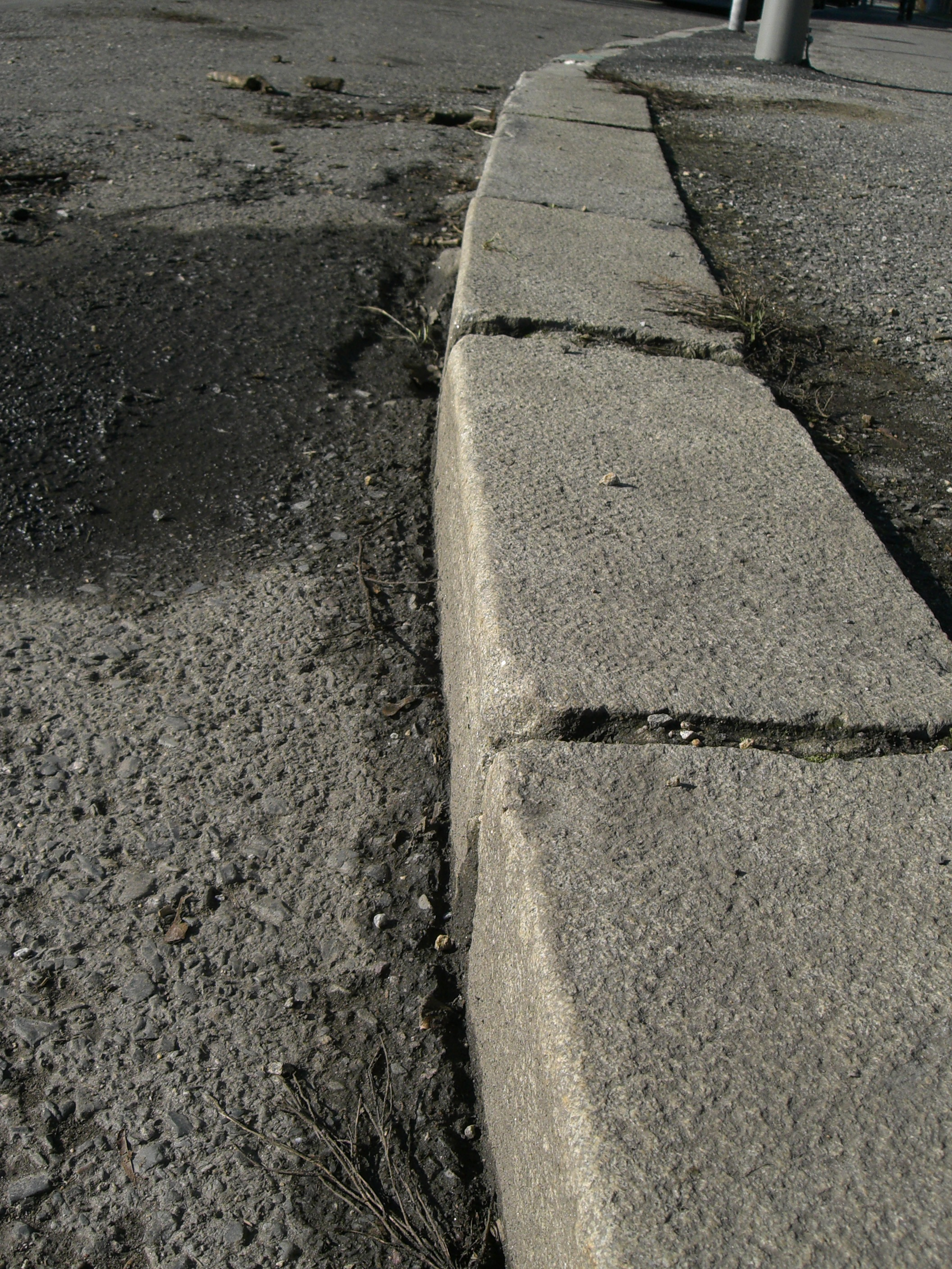 Curb in Písek town, Czech Republic